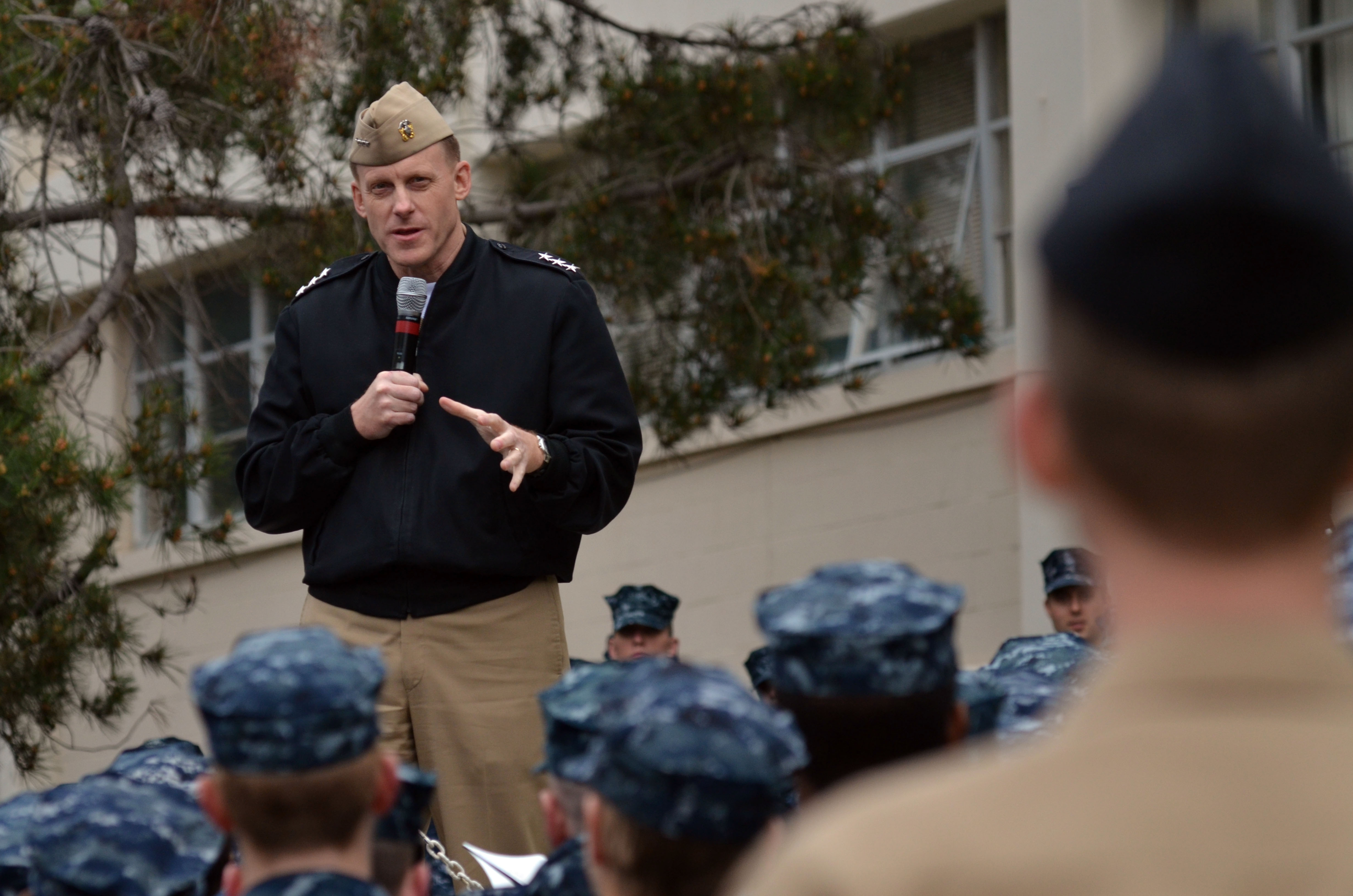 MONTEREY, Calif. (Jan. 31, 2012) Vice Adm. Michael S. Rogers, commander of U.S. Fleet Cyber Command and U.S.10th Fleet, speaks to students and staff at the Center for Information Dominance, Unit Monterey, during an all-hands call. (U.S. Navy photo by Mass Communication Specialist 1st Class Nathan L. Guimont/Released)